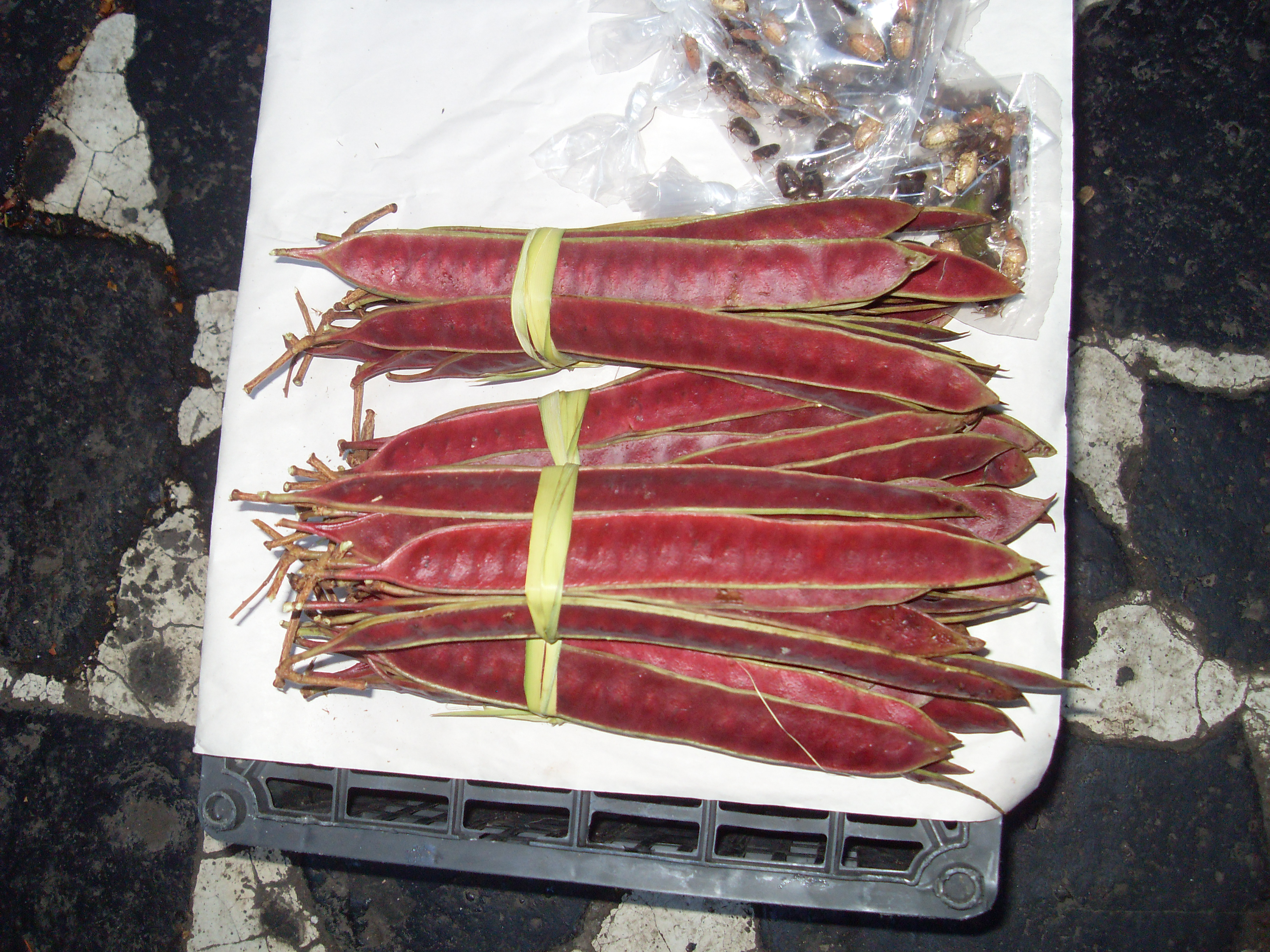 Guaje pods at a market in Taxco, Mexico